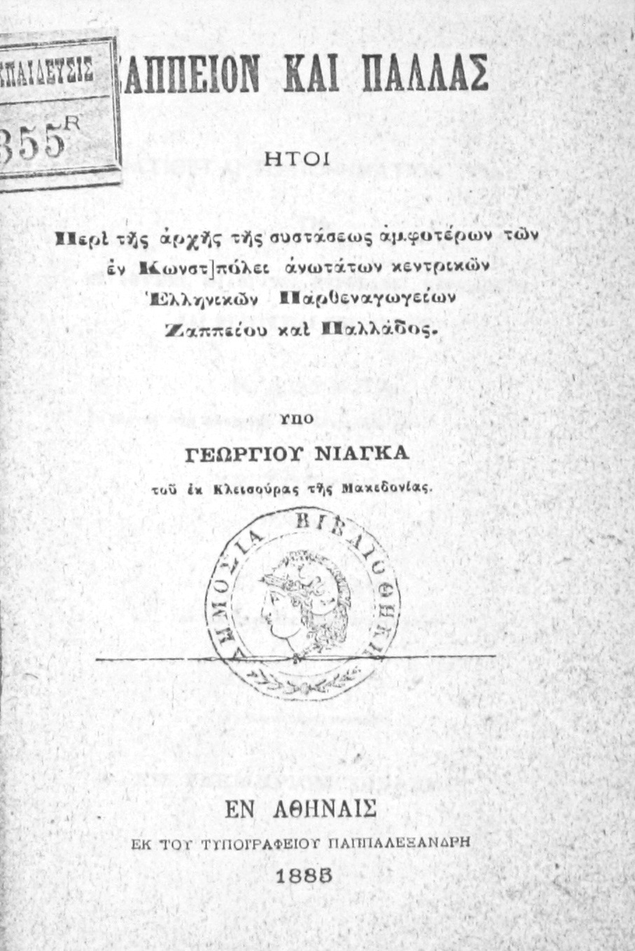 Ζάππειον και Παλλάς